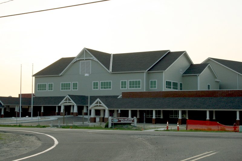 Cape Hatteras School (under construction), Buxton (Outer Banks), North Carolina (United States)